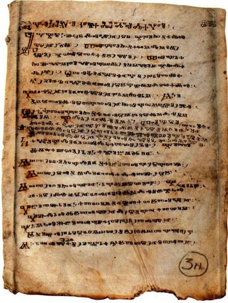 Psalterium Sinaiticum, one of the canon monuments of Old Church Slavonic.